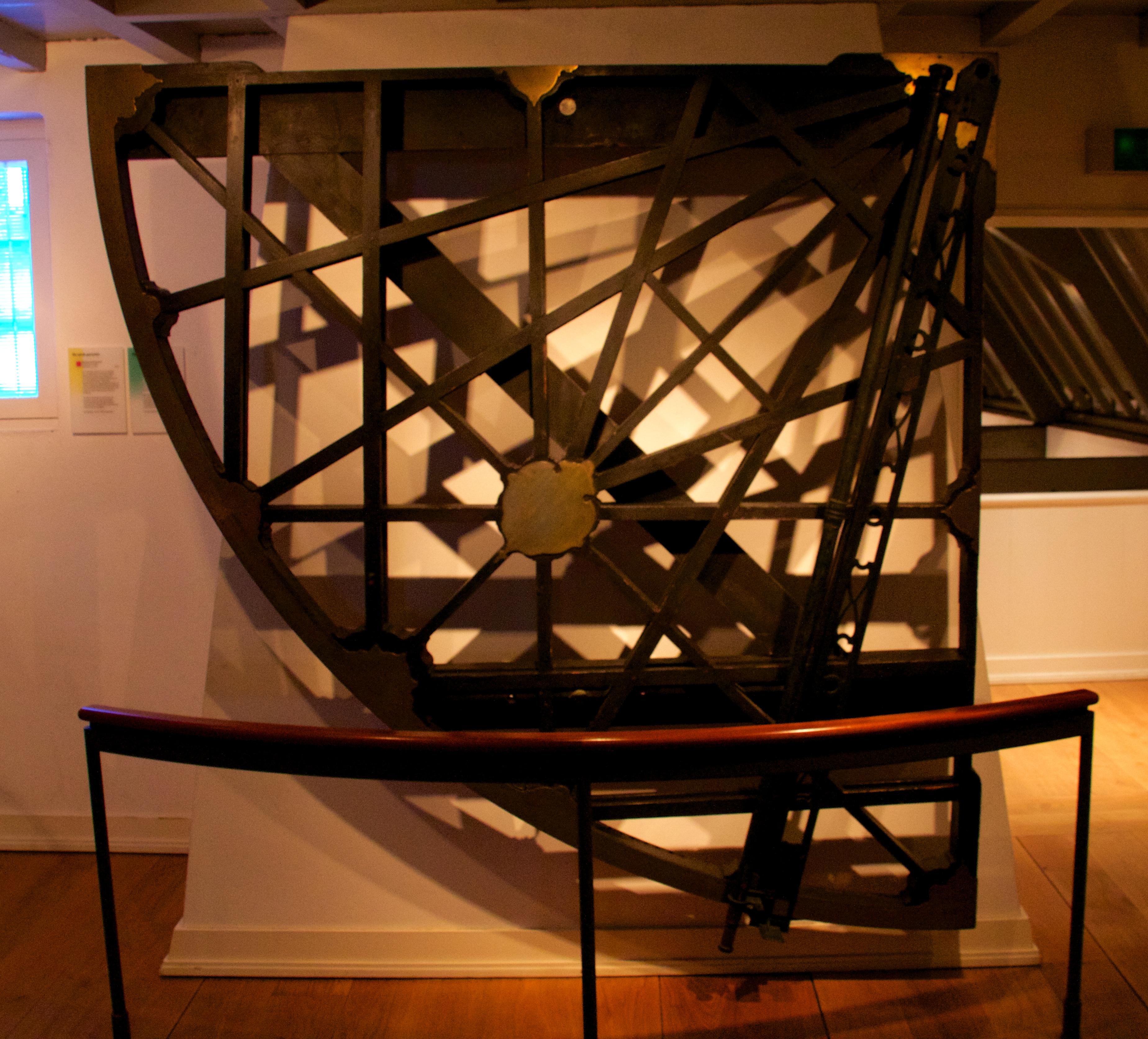 Astronomical quadrant. Willem Janszoon Blaeu. Amsterdam ca. 1610. 6500. Manufactured for Professor Willem Snel van Royen, betten known as Snellius (1580-1626). Was used to measure the latitude of Alkmaar and Bergen op Zoom. Using the known distance between the towns he was able to calculate the diameter of the earth. After Snellius's death the instrument was purchased by the University for its observatory. The telescope was added in 1669. In the Museum Boerhaave Leiden.